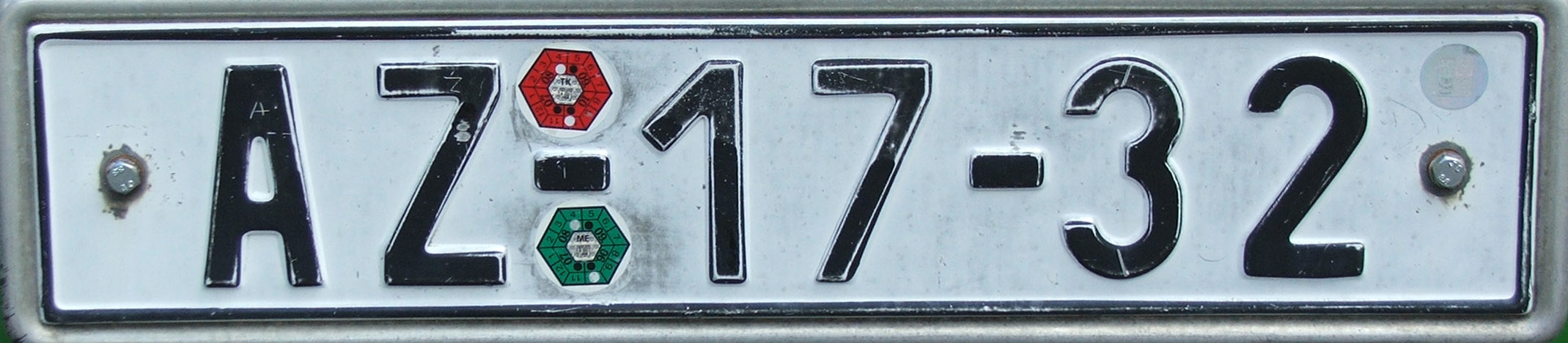 Old Czechoslovak vehicle licence plate from 70s (this type was issued 1960-1984 and is still valid in Czechia.) A stands for Prague